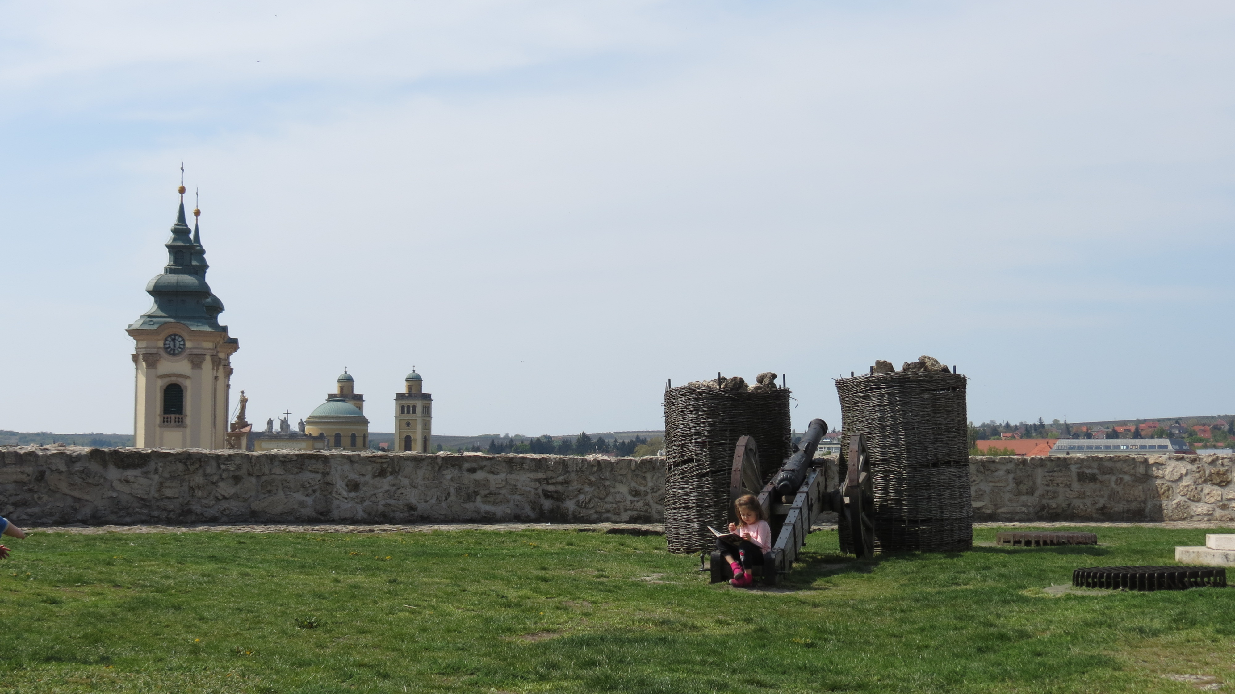 Vera reading Egri csillagok in Eger castle Eger, Hungary